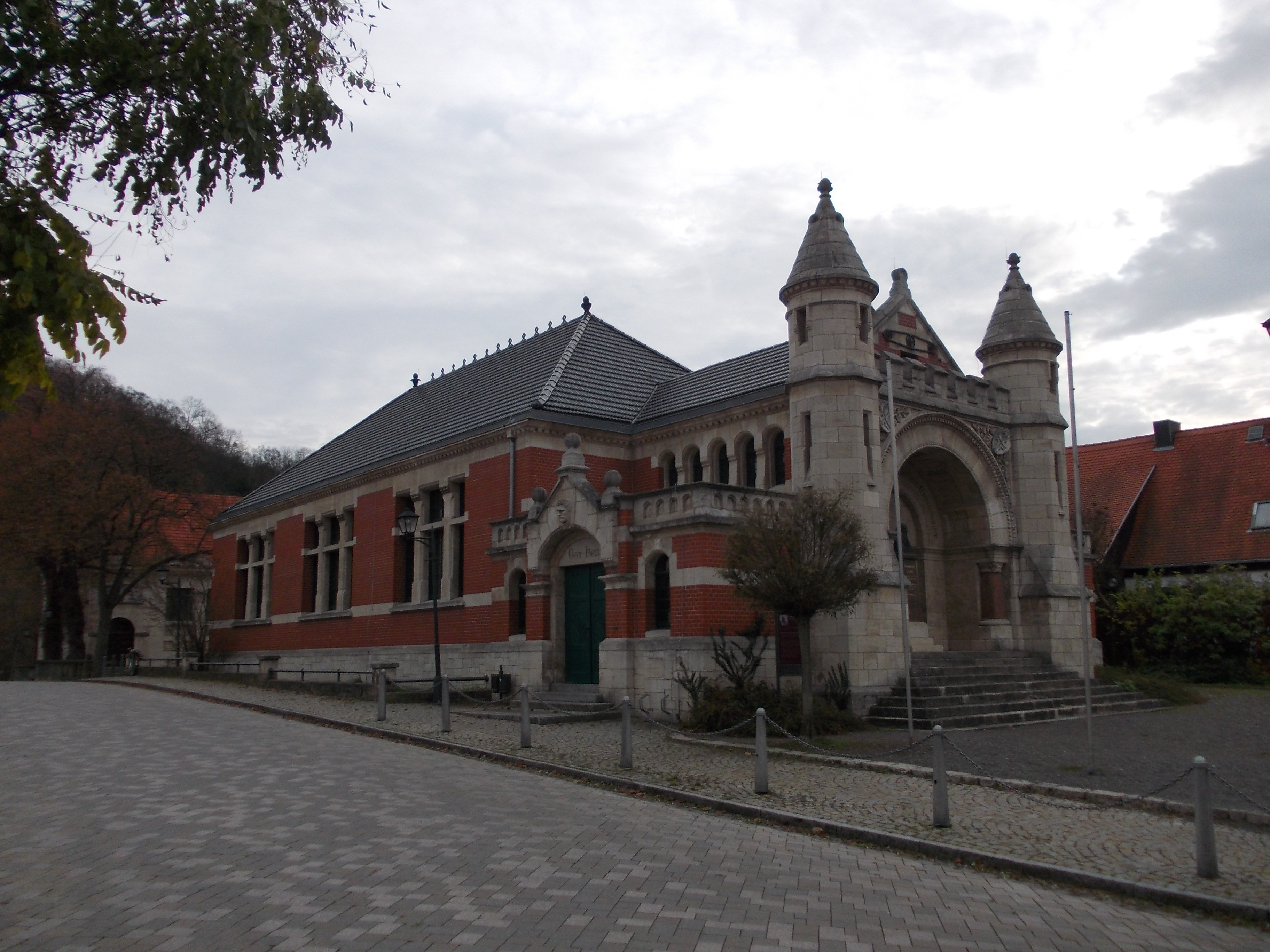 Friedrich Ludwig Jahn Memorial Gymnasium in Freyburg/Unsrut (district of Burgenlandkreis, Saxony-Anhalt)